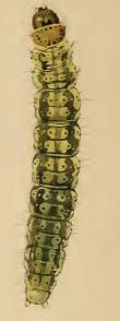 Stainton’s Natural History of the Tineina (1855–1873): Scrobipalpa artemisiella